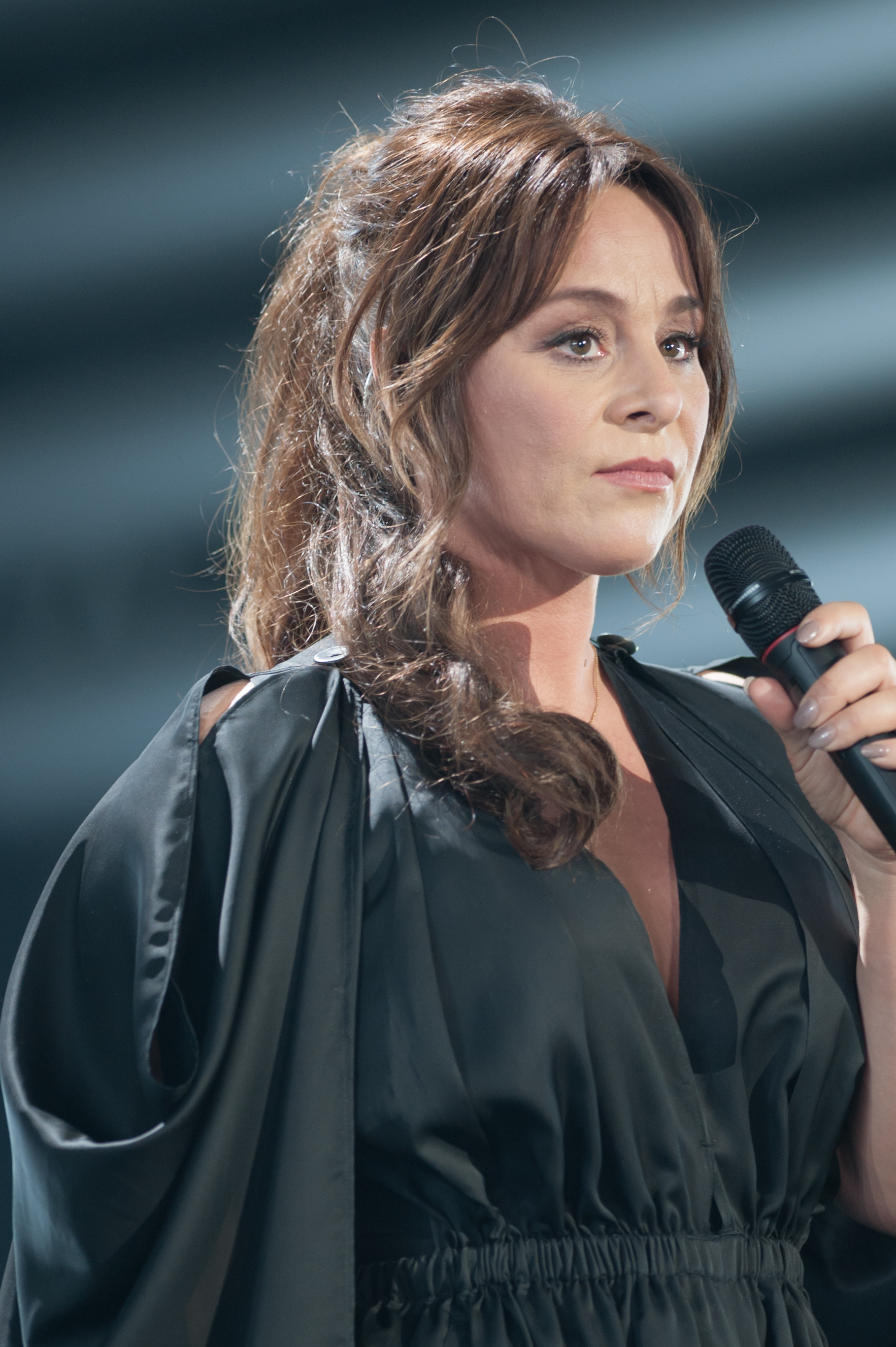 Eurovision Song Contest Vienna 2015: Trijntje Oosterhuis